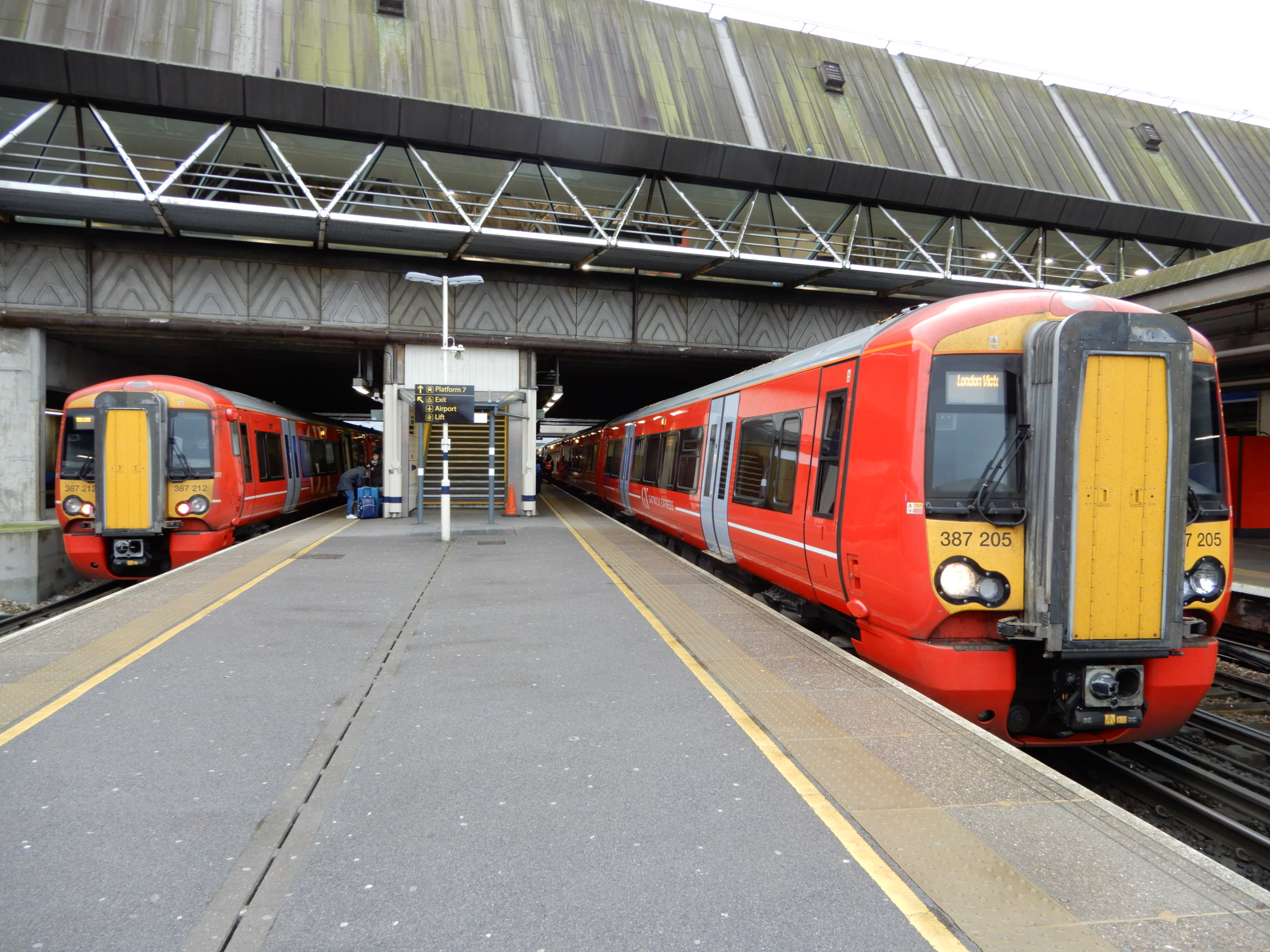 Class 387 unit 387205 in Gatwick Express colours at Gatwick Airport platform 5 in 2018, looking south